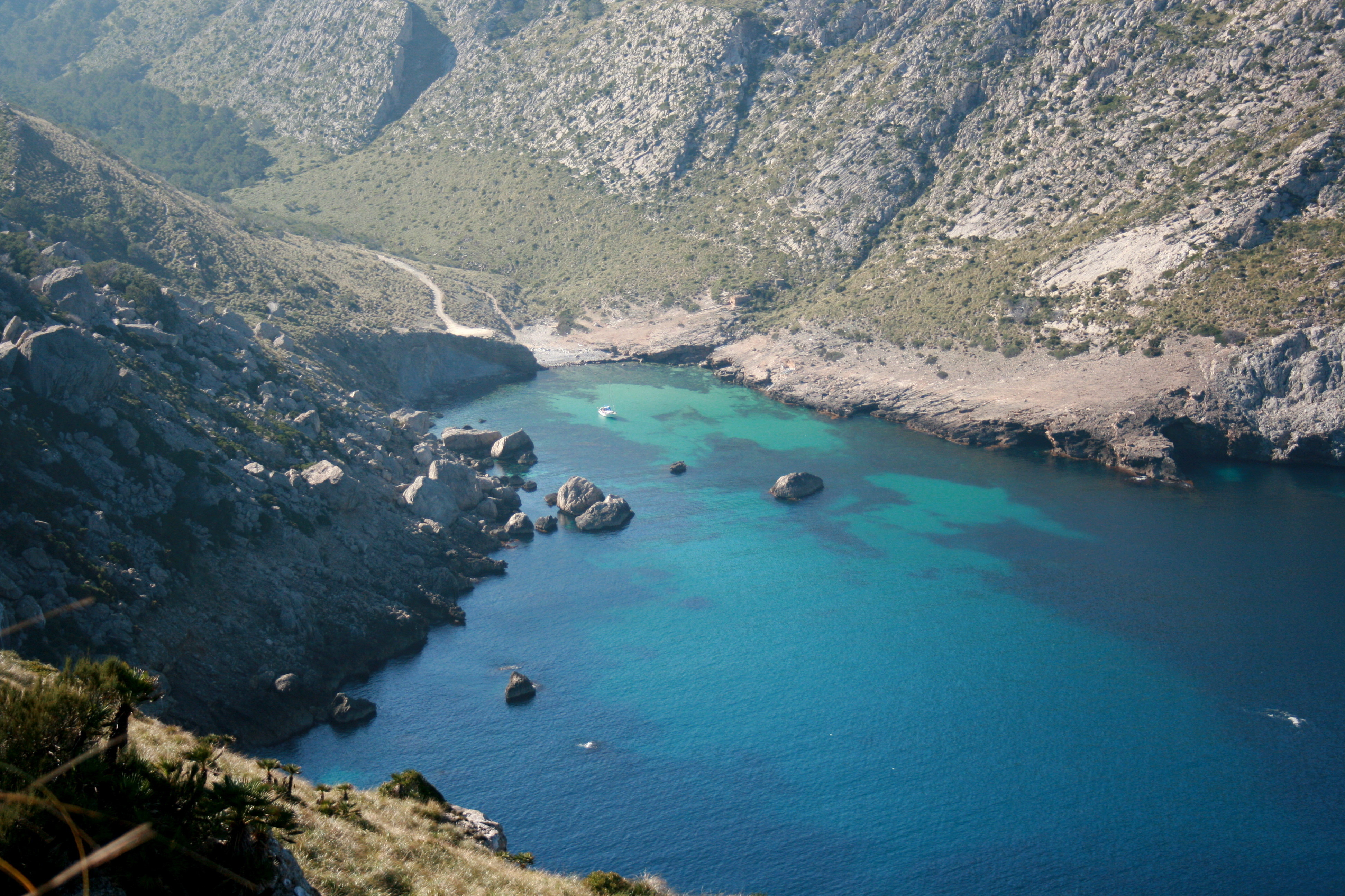 Cala Figuera, peninsula of Formentor, Pollença, Mallorca